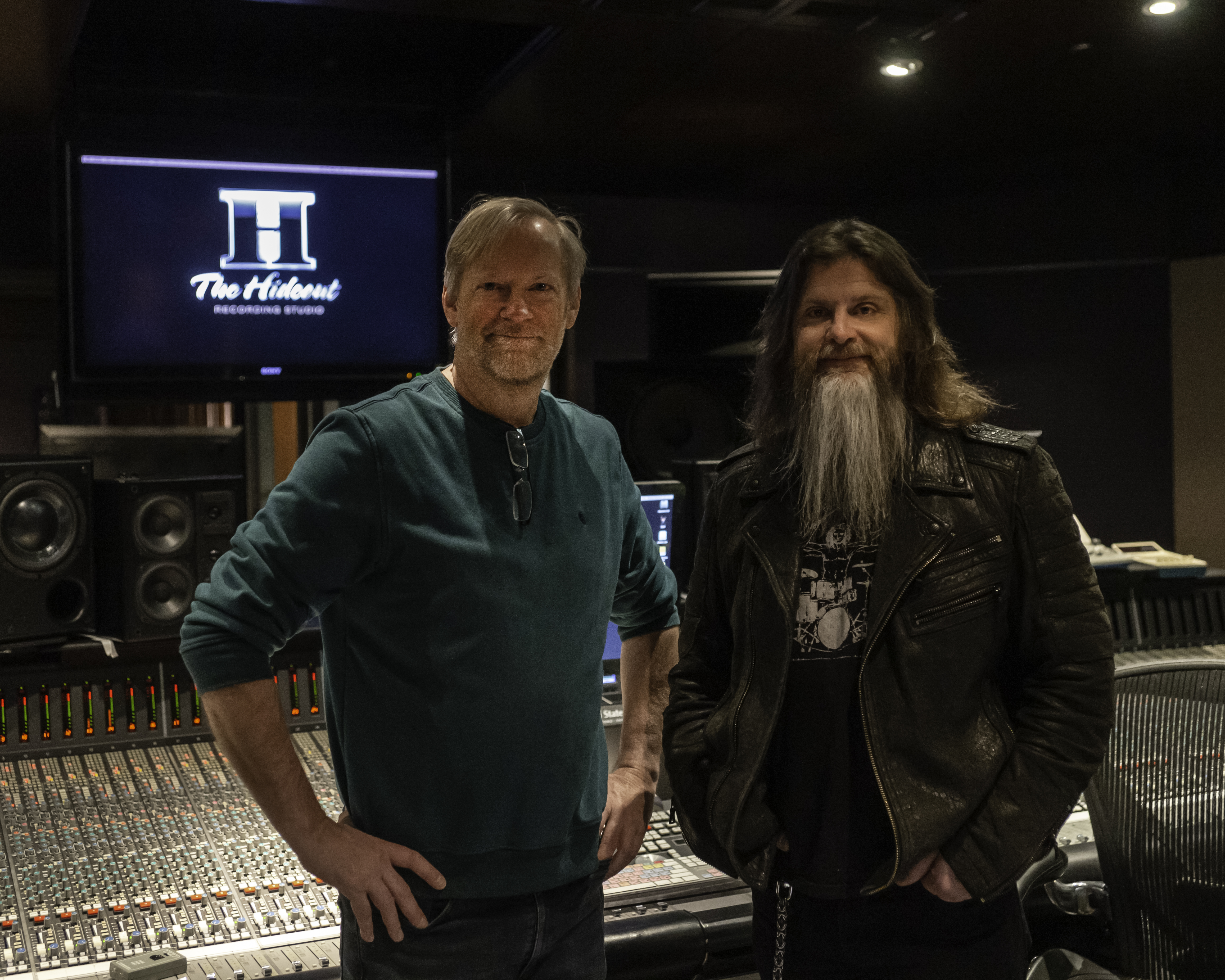 Ted Jensen and producer Kevin Churko at The Hideout